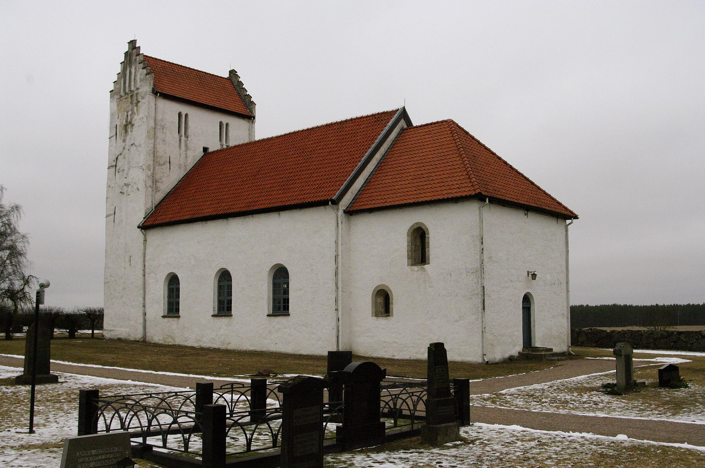 From Lyngsjö church, Scania, Sweden